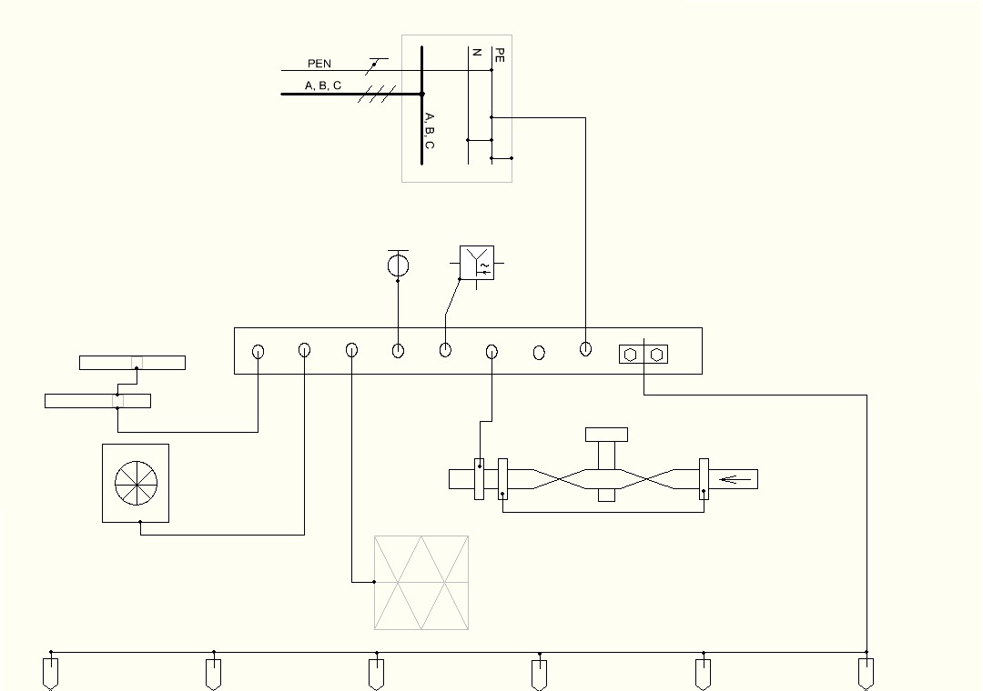 Wiring diagram of the main earthing busbar in TN-C-S system, which you can meet on techincal drawings.